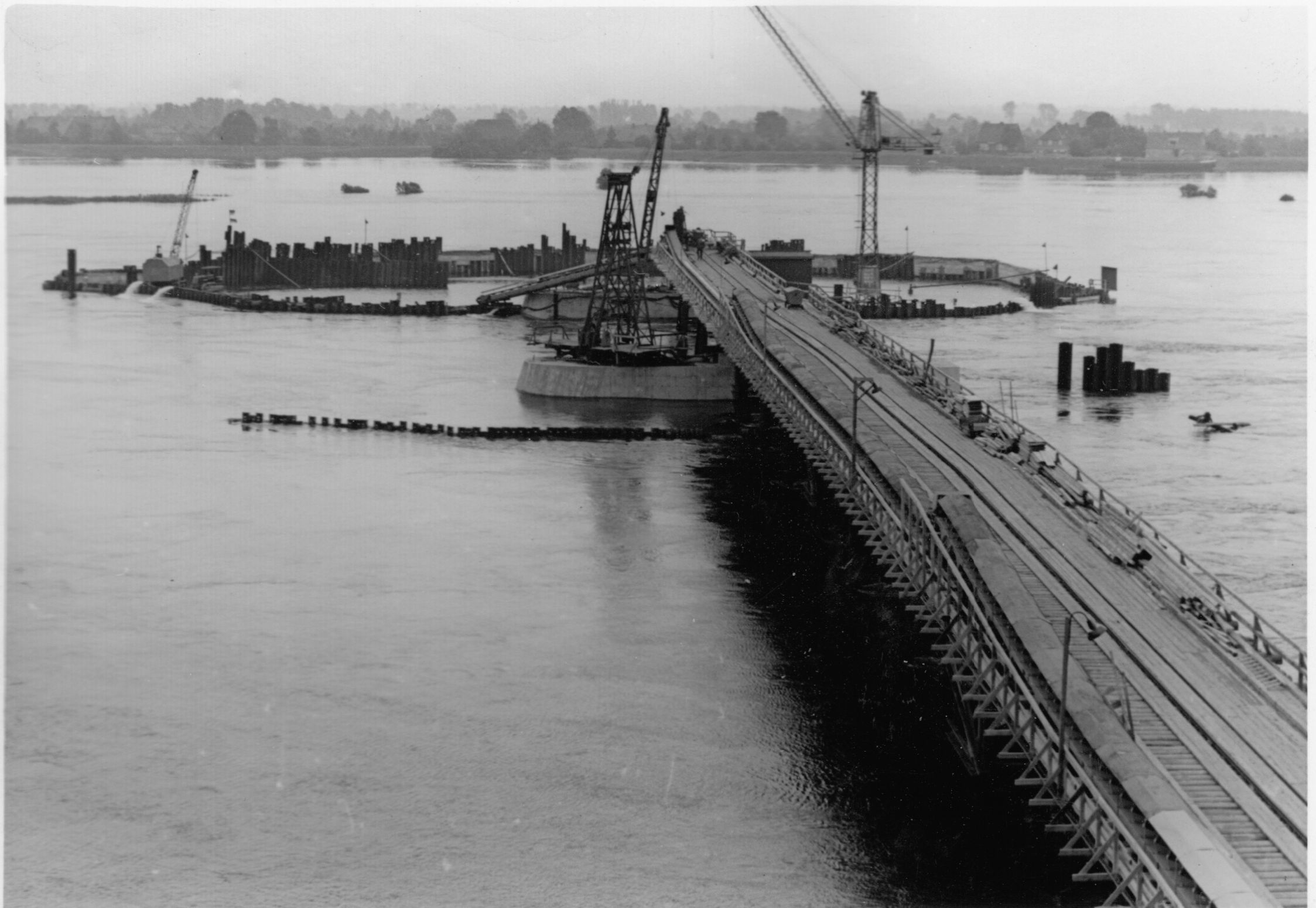 Construction of the Geesthacht Elbe weir.